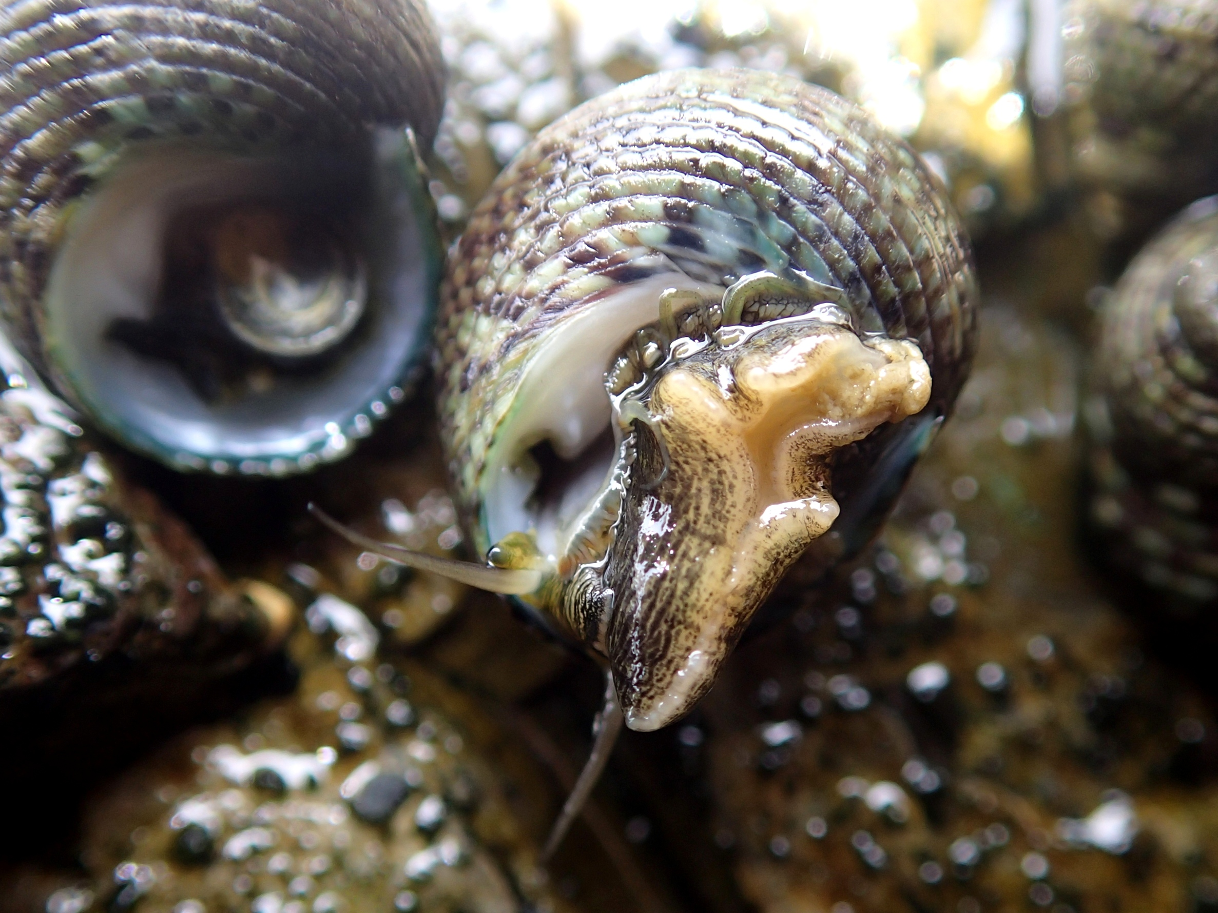 Monodonta sp. (Monodonta australis auct. non Lamarck, 1822) from Chichijima Island, the Ogasawara Islands, Tokyo, Japan.